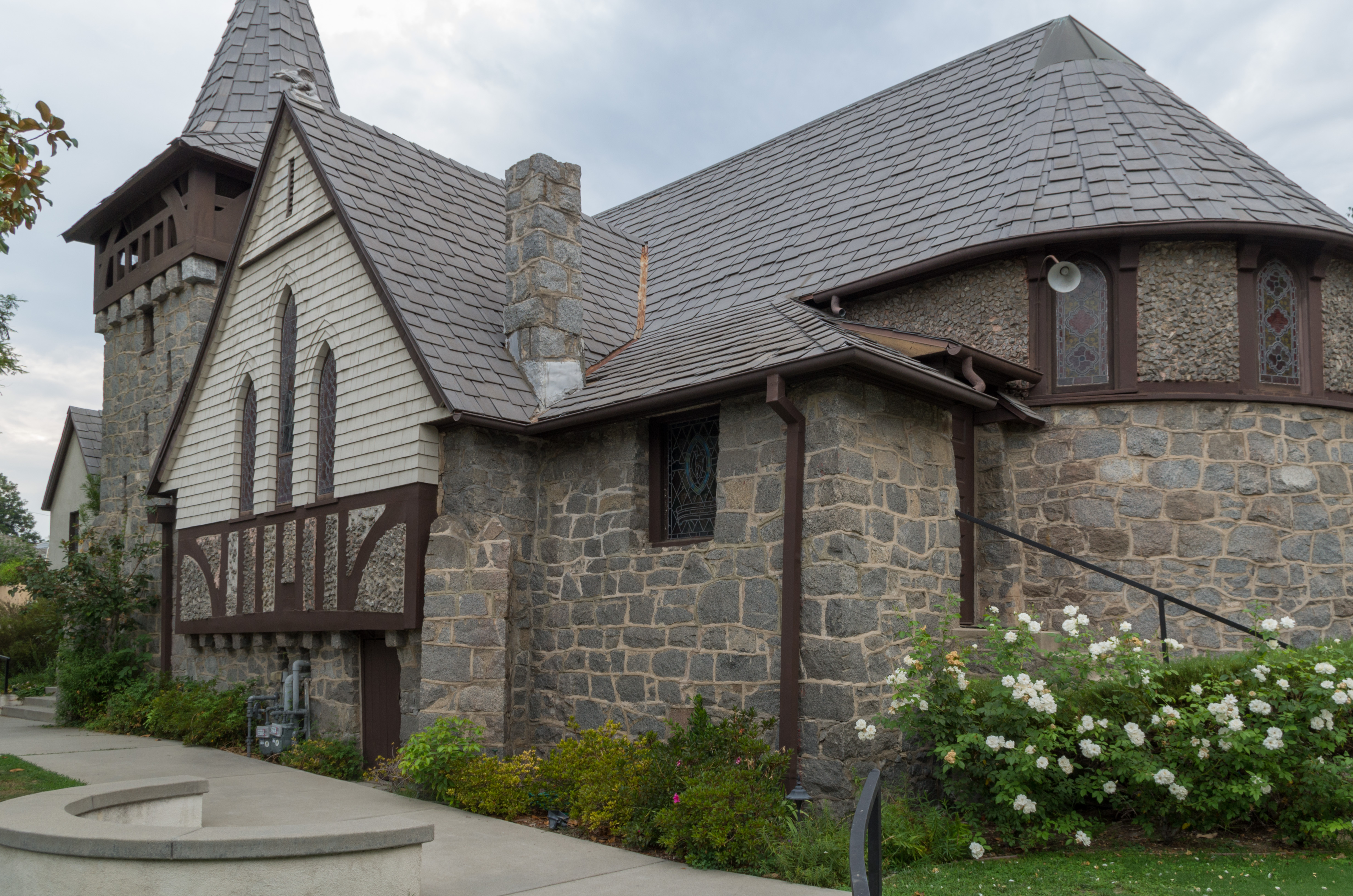 Episcopal Church of the Ascension, 25 E. Laurel Ave. Sierra Madre